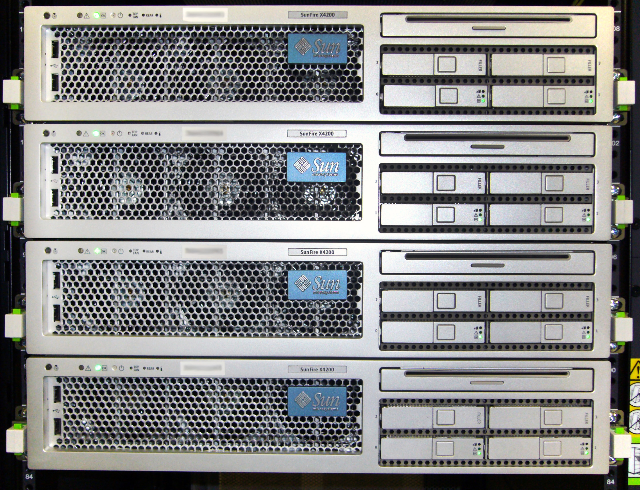 SunFire X4200 Servers, color corrected, distortion improved.